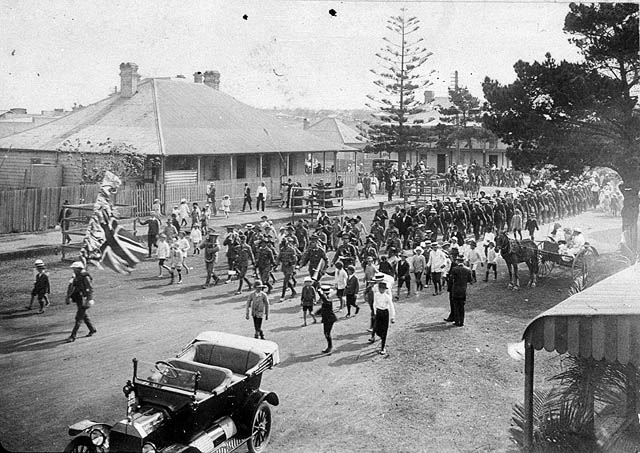 Arrival of "North Coasters" recruiting march in Port Macquarie during World War I - Port Macquarie, NSW - one of several WW1 Snowball marches